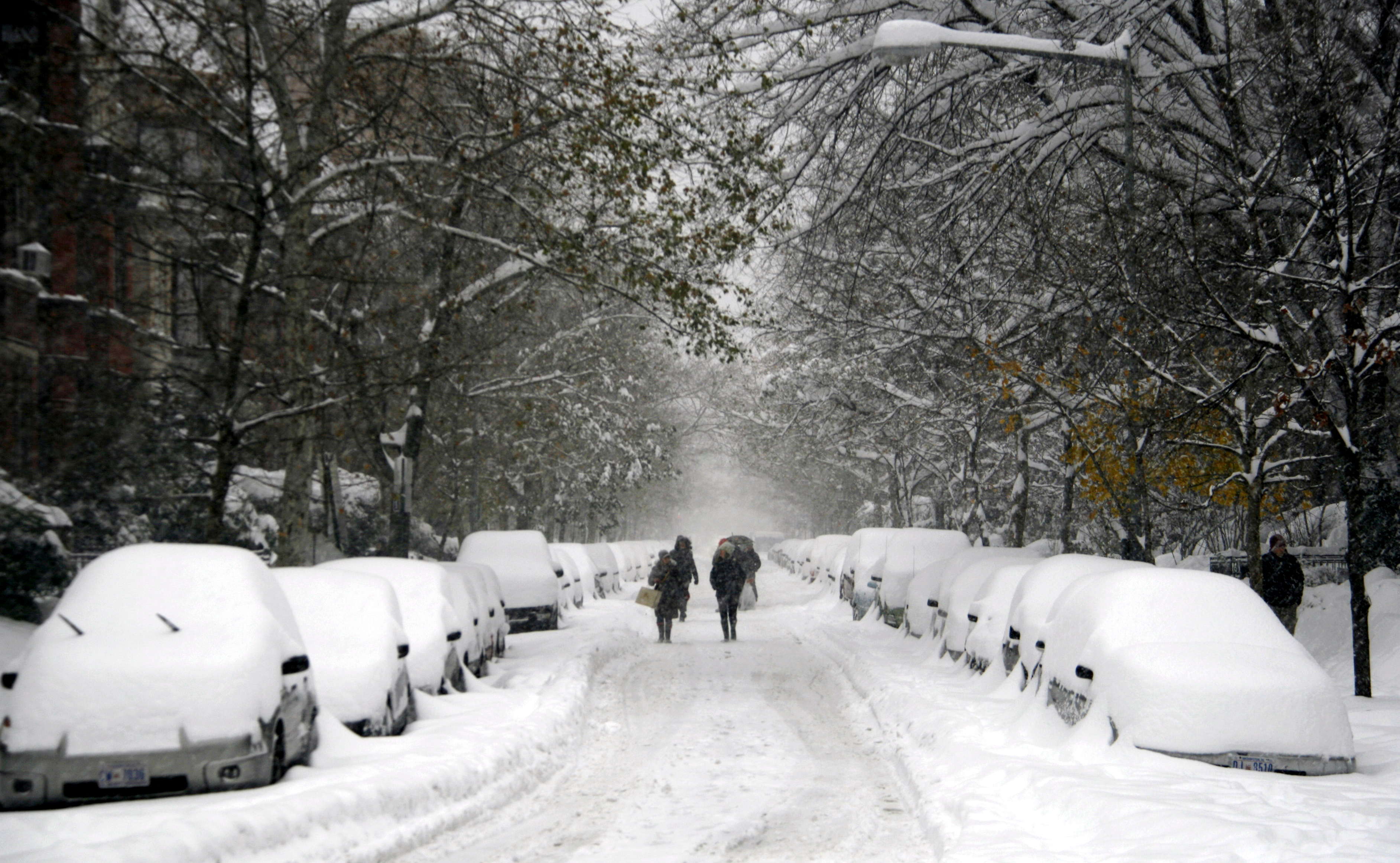 Facing west on Q Street, N.W., in the Dupont Circle neighborhood of Washington, D.C., during the North American blizzard of 2009.